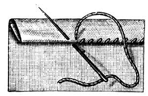 Illustration for section "Plain sewing" in Encyclopedia of Needlework. Fig. 8. Hemming-stitch.